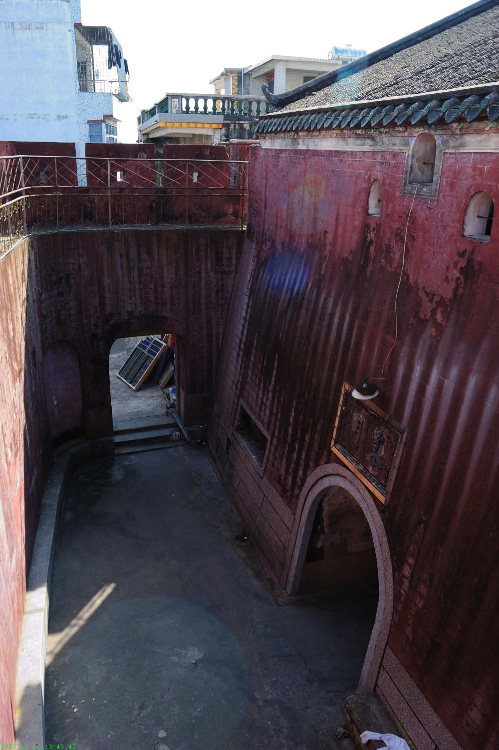 Ping Hai old city East gate.